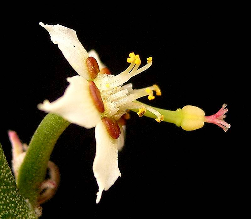 Euphorbia antisyphilitica